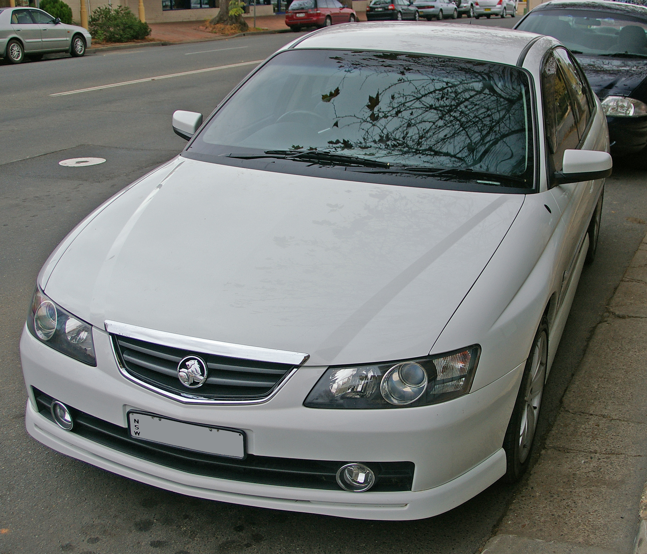 2002–2003 Holden Calais (VY) sedan. Photographed in New South Wales, Australia.